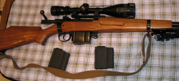 Photo of an AIA M0-B2 7.62 Match Type rifle.